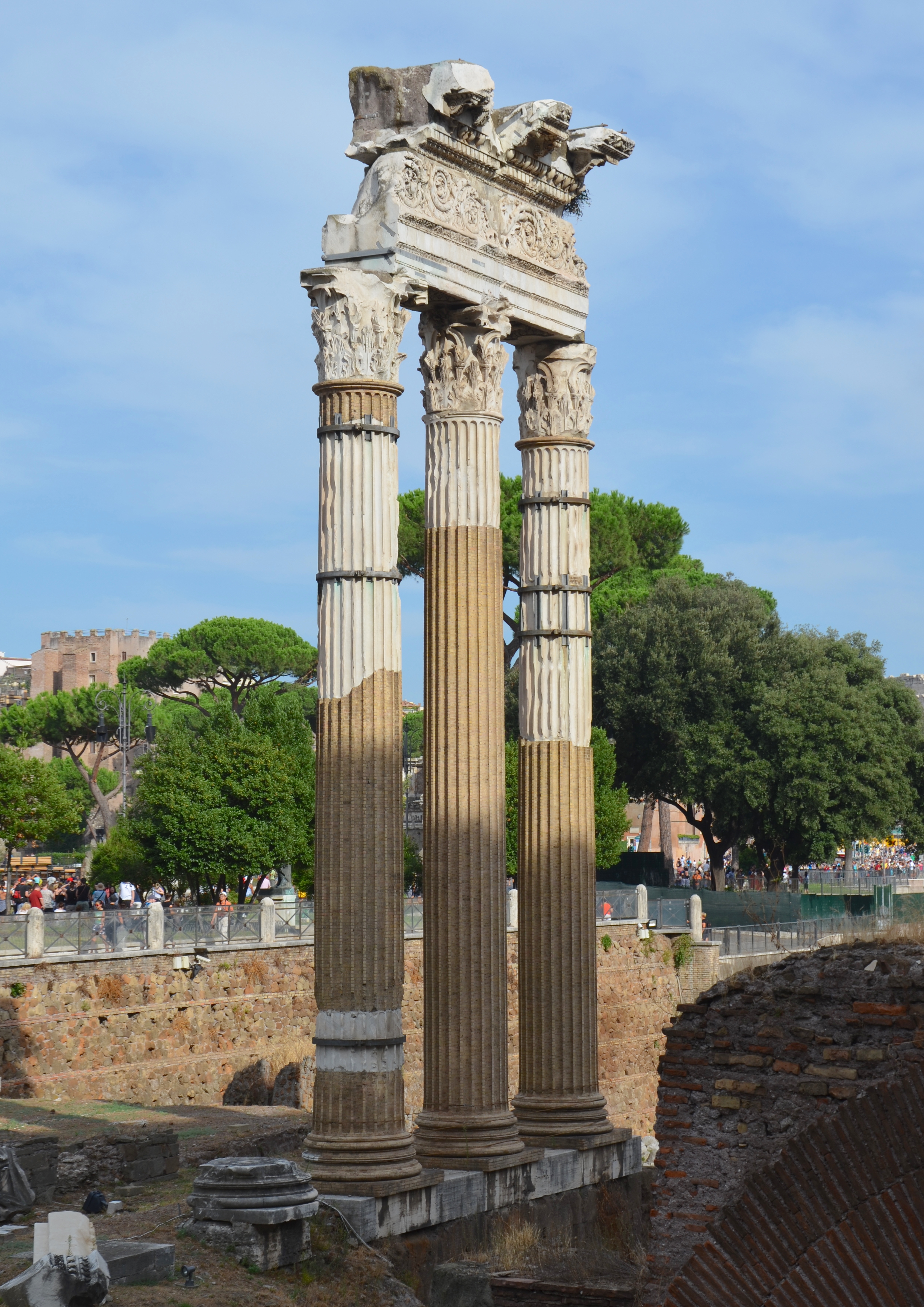 The Forum of Caesar (built near the Forum Romanum in Rome in 46 BC) and the Temple of Venus Genetrix, Imperial Forums, Rome